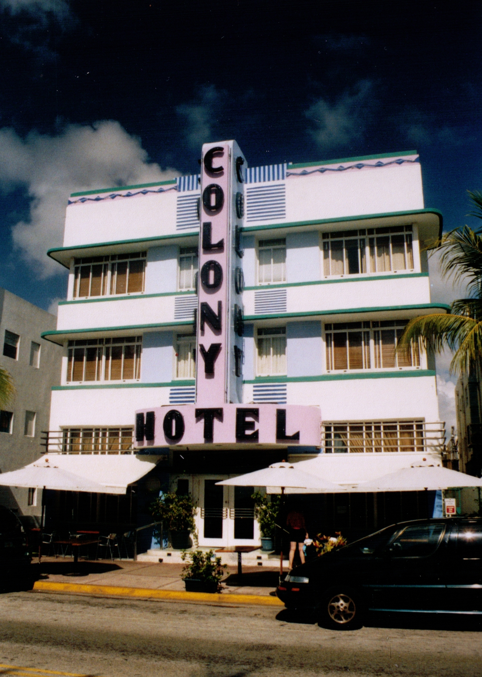 Colony Hotel, along Ocean Drive, in the Miami Beach Architectural District aka Miami Beach Art Deco District. Digitized photo.